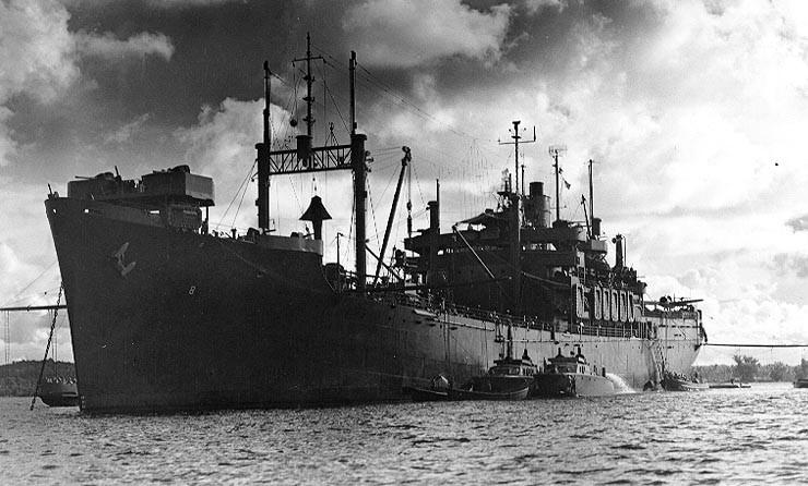 The U.S. Navy seaplane tender USS Tangier (AV-8) at anchor in the South Pacific area, July 1944. From 31 March to 31 July 1944, Tangier was based at Seeadler Harbor, Manus.